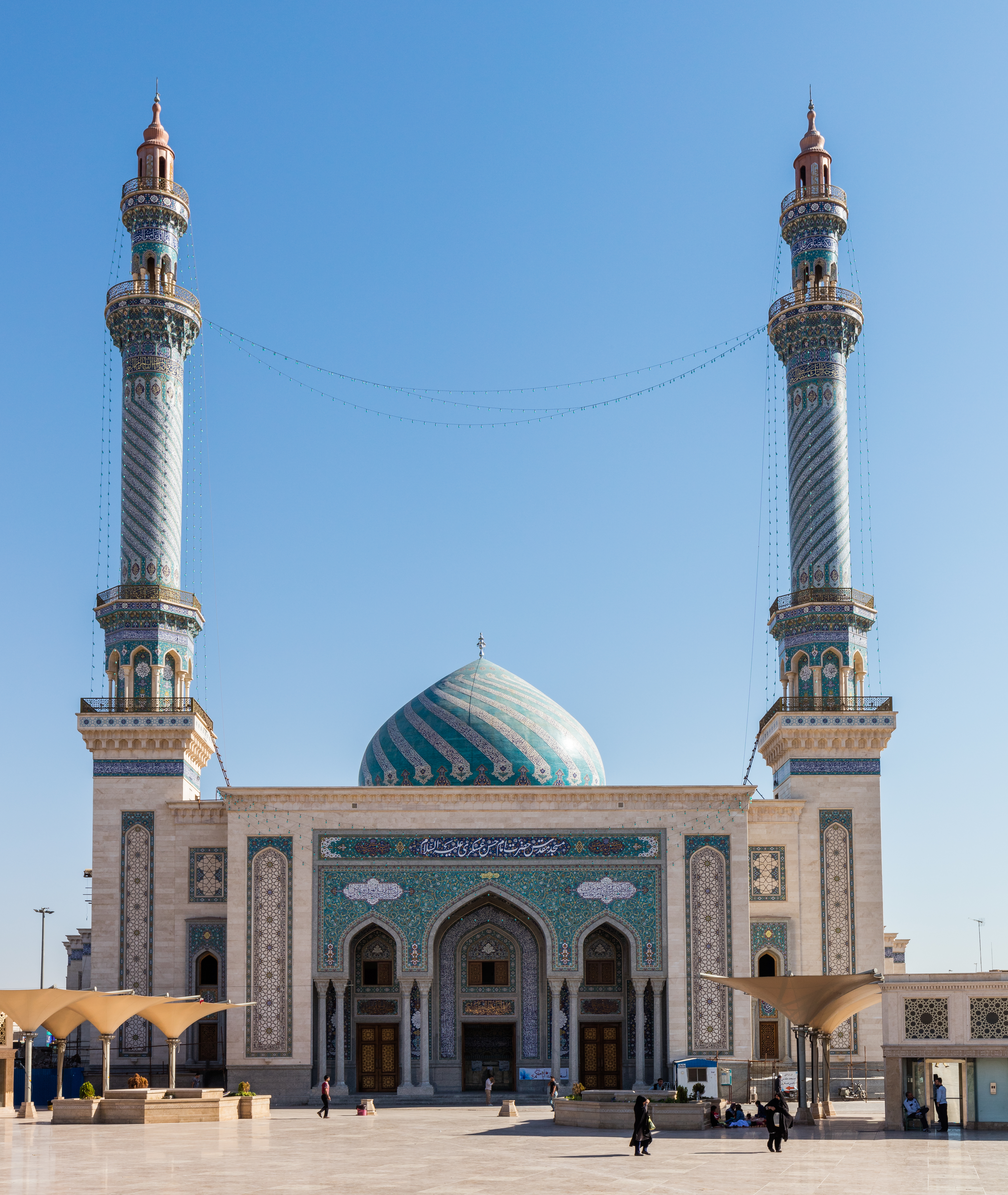 Imam Hassan Al-Asgari Mosque, Qom, Iran